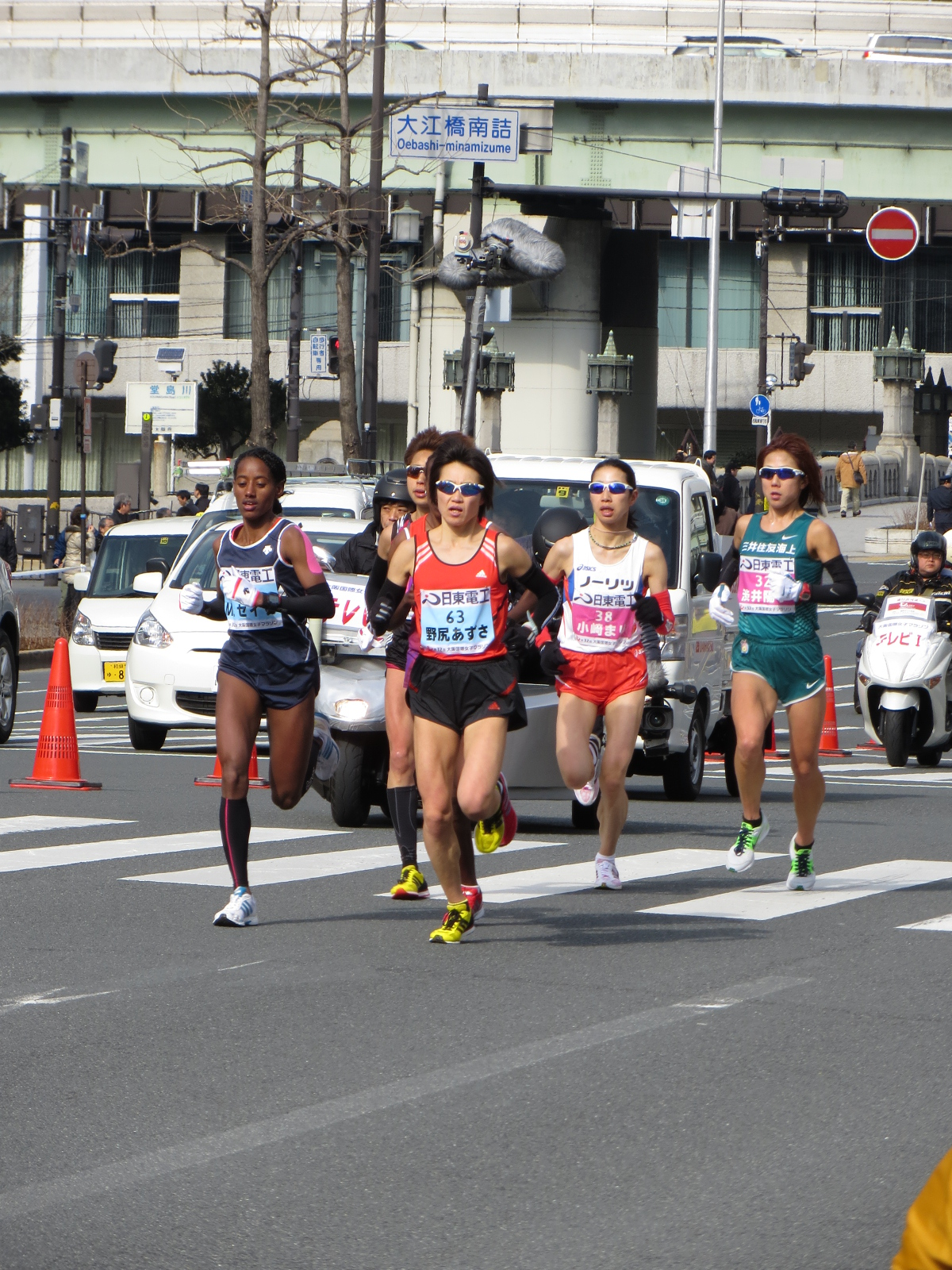 32nd Osaka International Ladies Marathon. Runner that passes through the Yodoyabashi. (From right to left) Yoko Shibui, Mari Kozaki, Azusa Nojiri (Pacemaker) etc. Kayoko Fukushi put one person behind the Nojiri.